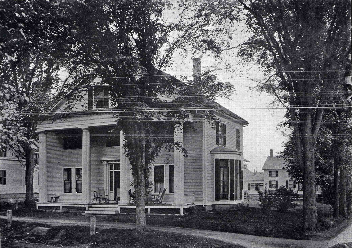 A photo of the physical plant of Phi Gamma Delta, a fraternity at Dartmouth College. See Dartmouth College Greek organizations.